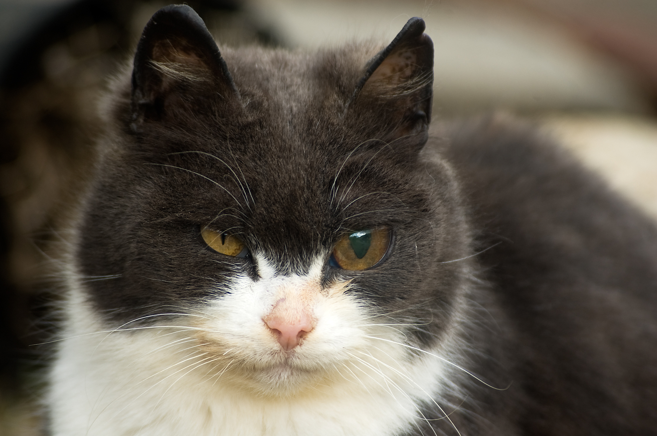 A cat with an ocular prosthetic.